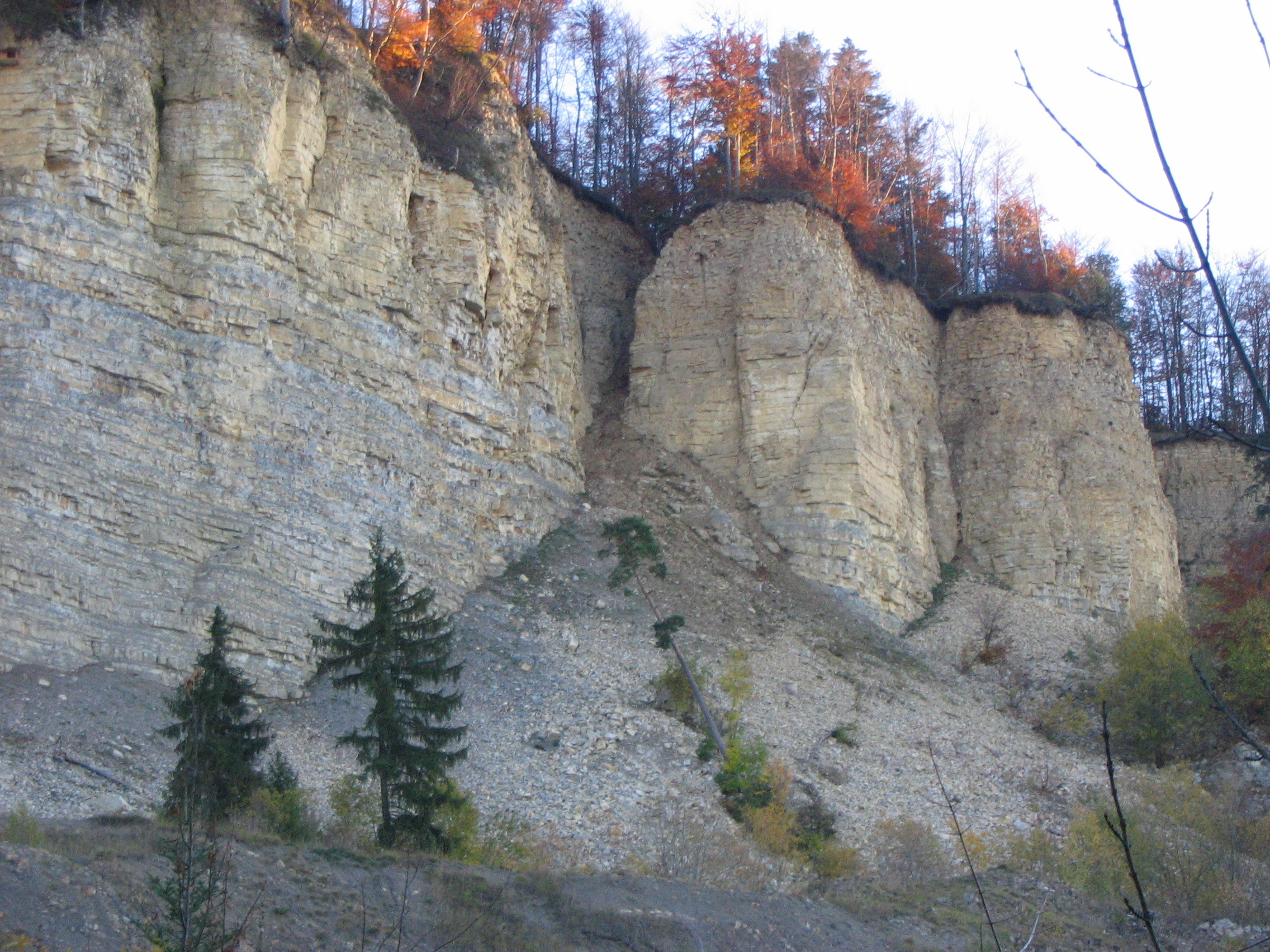 Section of the main scarp of the Mössingen landslip of 1983 at the Hirschkopf hill near Mössingen, Swabian Alb, southern Germany, exposing Upper Jurassic limestones. The Mössingen landslip is a national geotope of Germany.